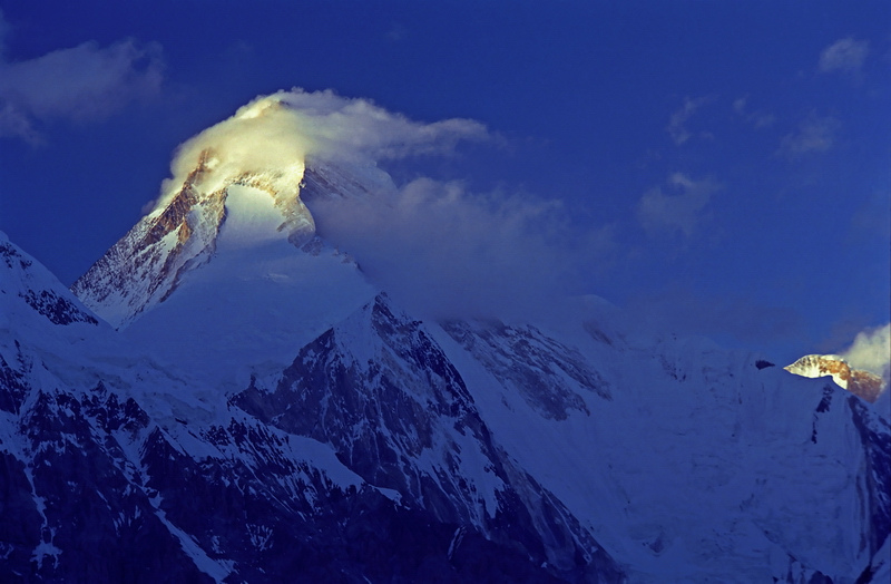 The hills Central Tian Shian is located in Central Asia. On the maximum points of this file there passes border of three countries - China, Kazakhstan and the Kirghizstan. On gorges of this hills powerful glaciers with the glacial rivers and lakes proceed. Here the most northern peaks with a mark above 7000м. Peak of Khan Tengri 7010м., and peak the Pobeda 7439м are located. Peak Pobeda： (The mountain's official name in Kyrgyz is Jengish Chokosu, which means "Victory Peak") 托木尔峰：